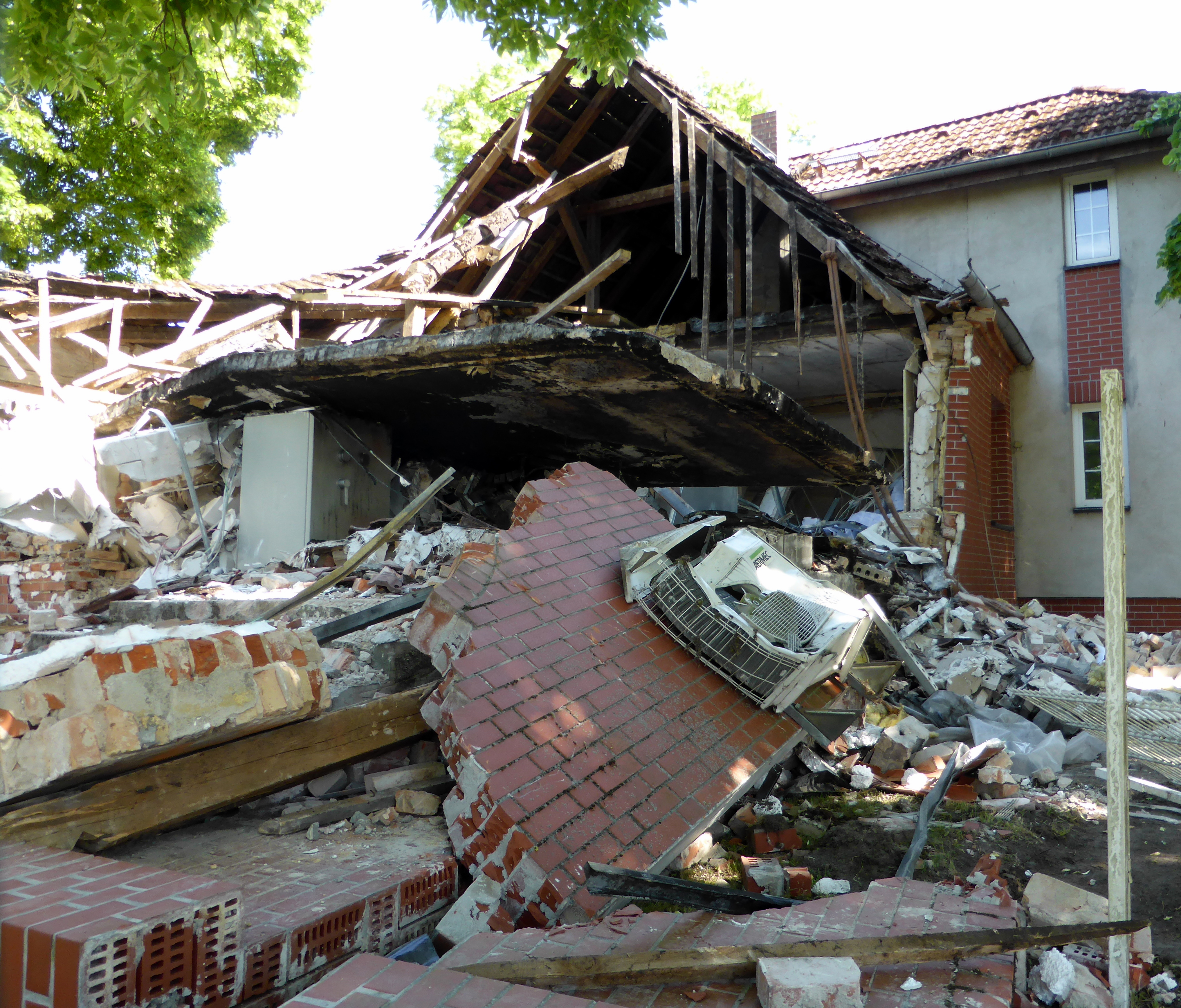 In an attempt to bust open an ATM machine in the middle of the night, the thieves miscalculated and busted the whole bank building of the Bank in Vehlefnz.